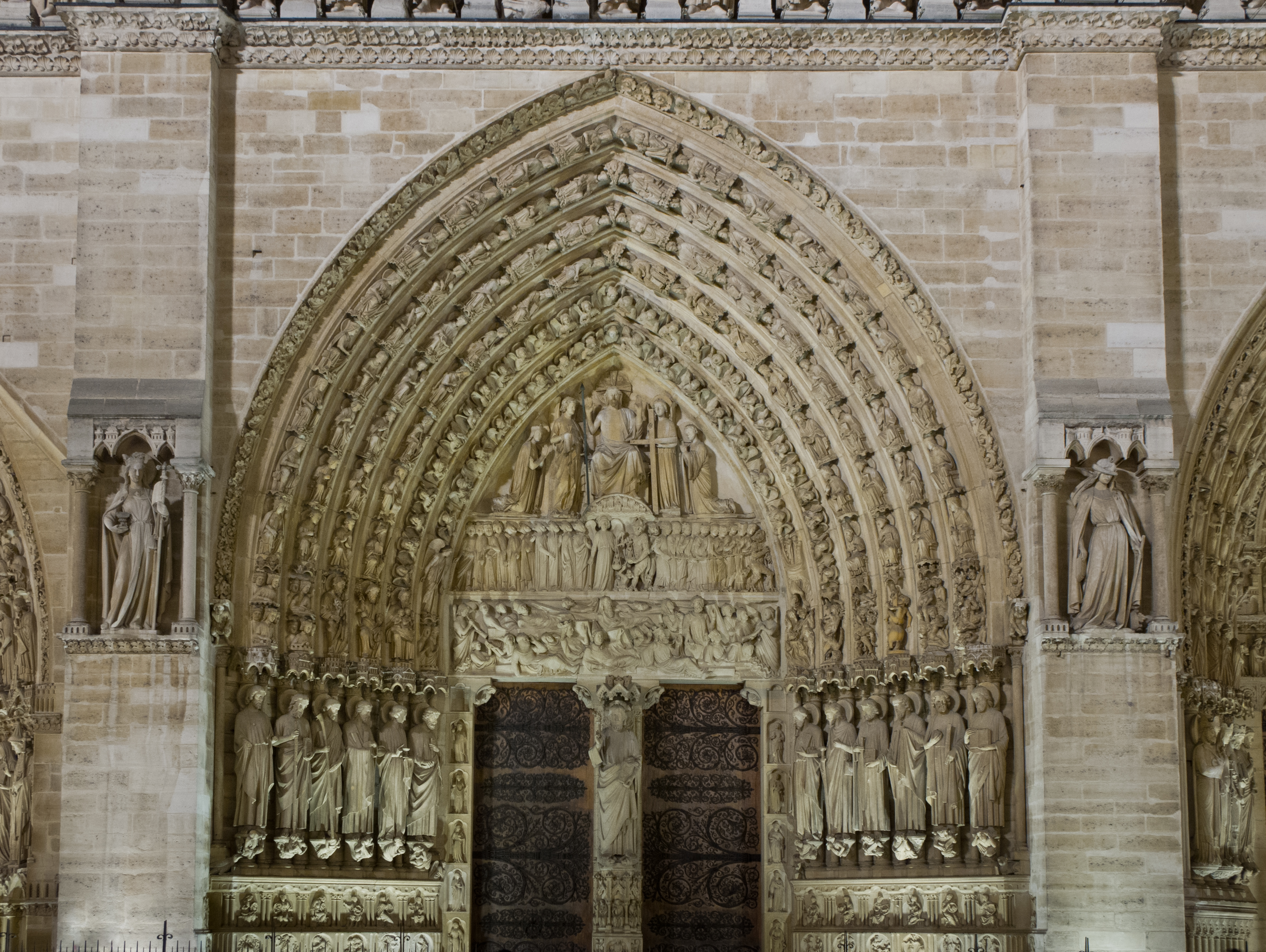 Night view of the Portal of the Last Judgement of the Cathedral of Notre-Dame of Paris, France.